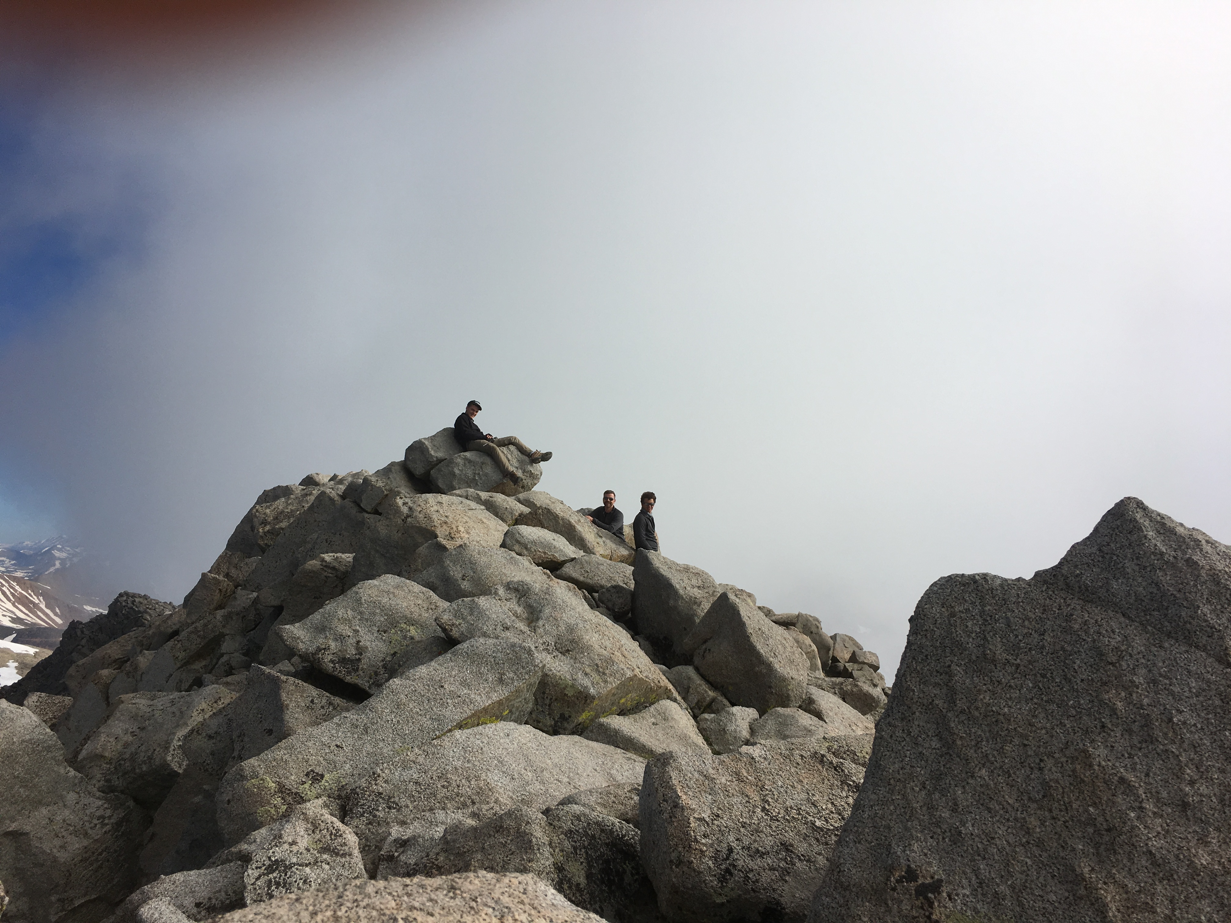 The summit of Mount Shavano during the summer hiking season.